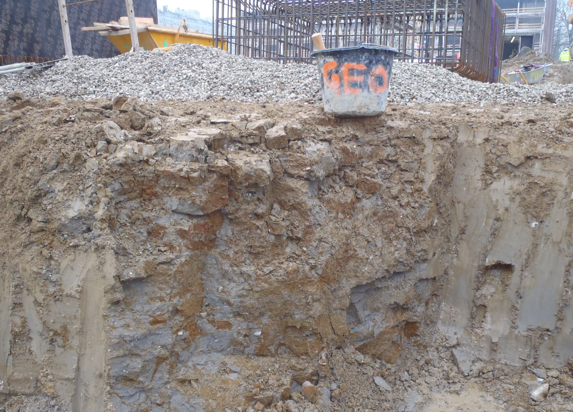 Fractured clay till, Carlsberg site, Copenhagen